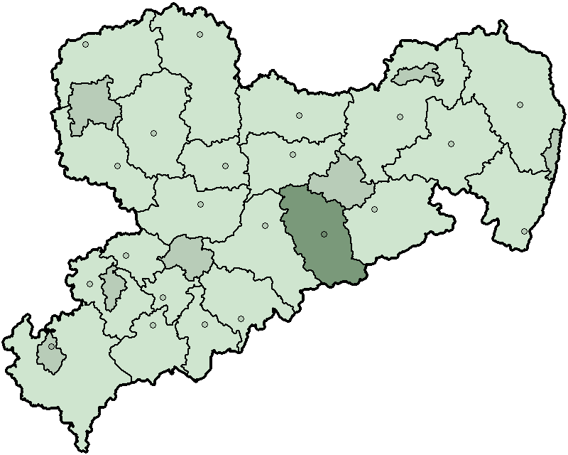 Map of the state Saxony in Germany before 2008, district Weißeritzkreis highlighted.